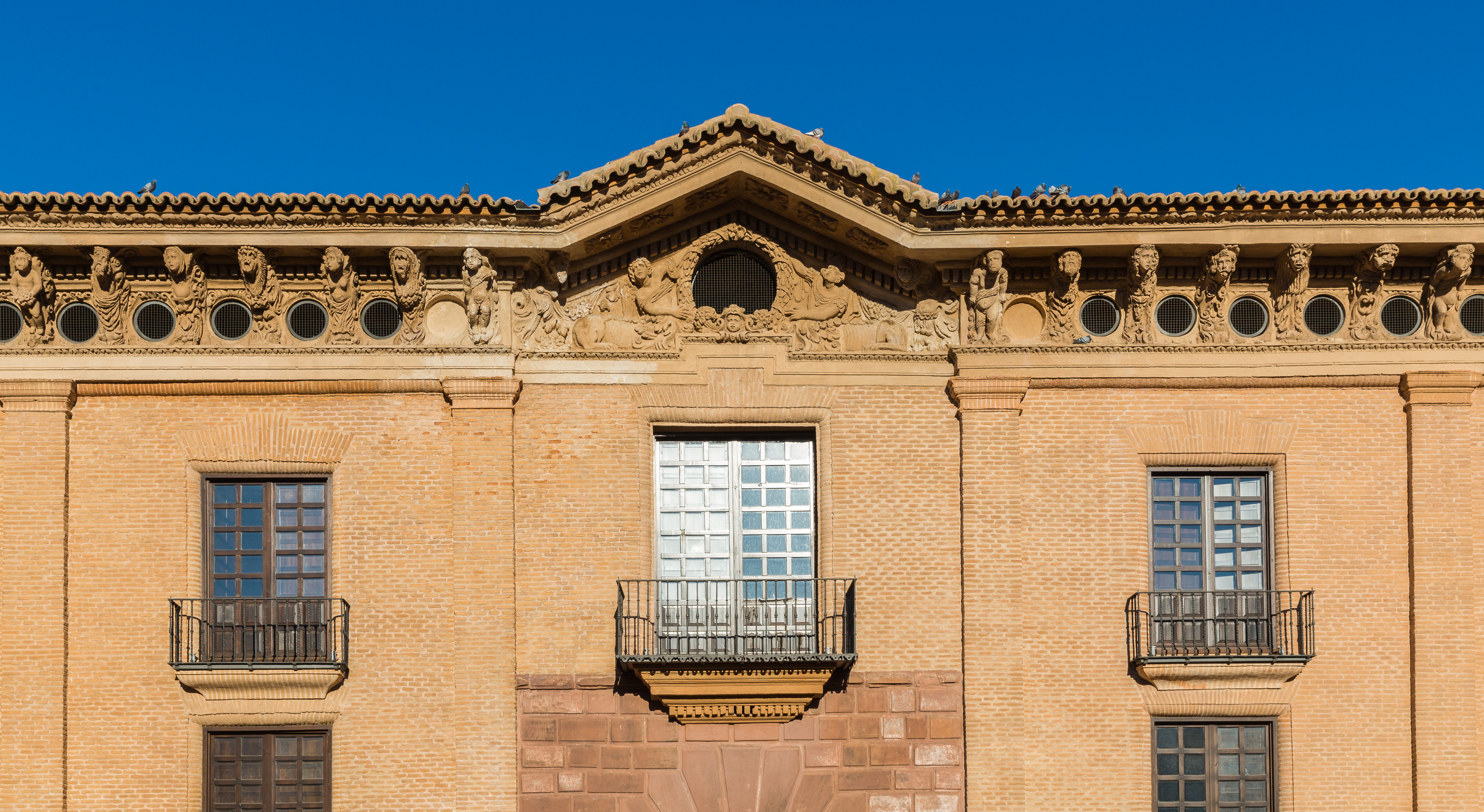 Palace of the Count of Morata, Morata de Jalón, Zaragoza, Spain